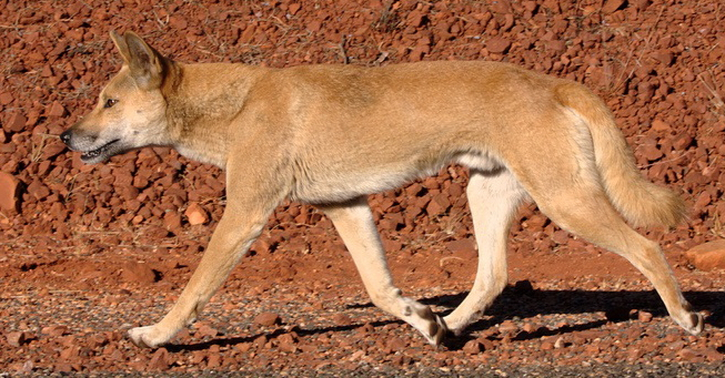 Dingo walking. Image cropped from Wikimedia Commons work by Jarrod Amoore.